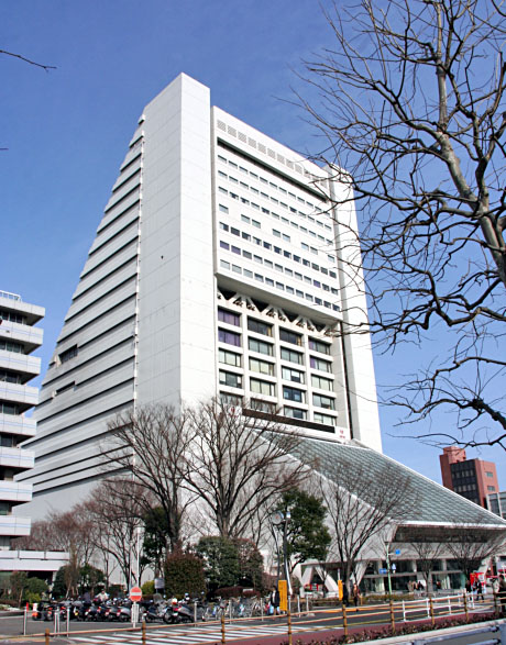 Nakano Sunplaza (Nakano Ward, Tokyo Metropolitan Area, Japan)